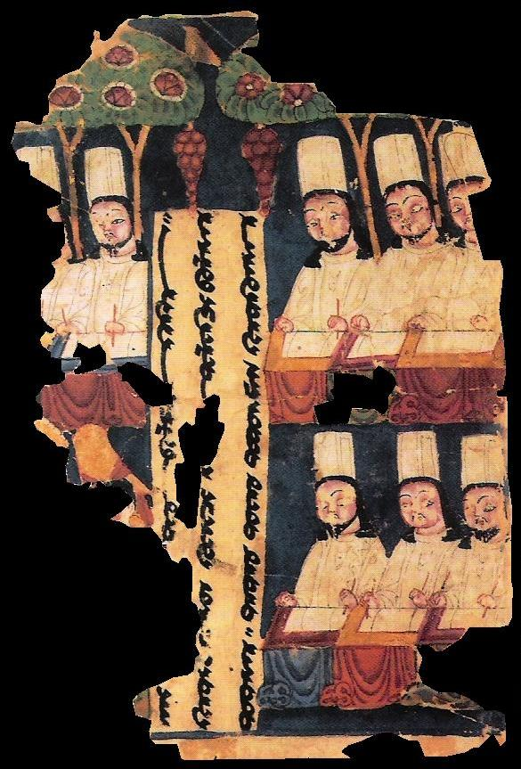 Leaf from a Manichaean Book. Khocho, Ruin K. 8th/9th century AD. Painting on paper. 17.2x 11.2 cm. “MIK III 6368” recto.